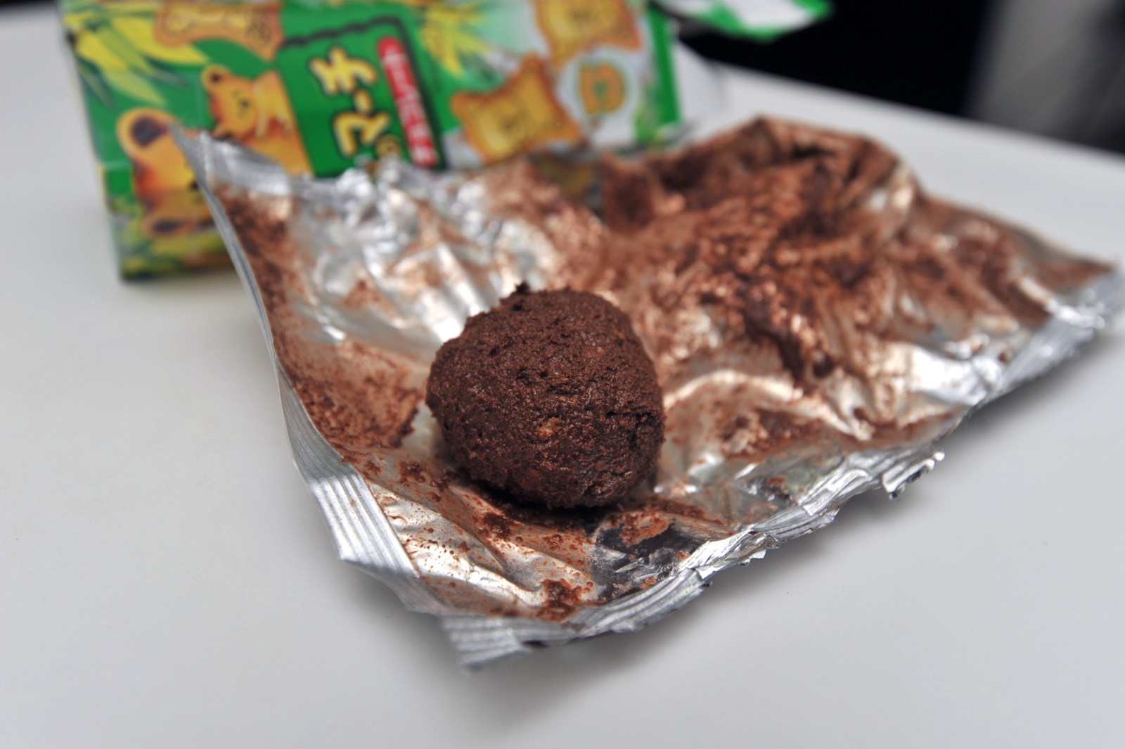 A giant chocolate ball made by violently shaking a box of unpacked "Koala's March".